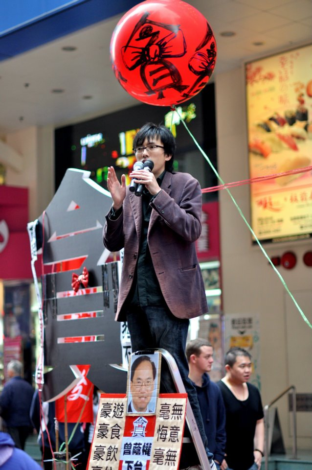 anti tsang